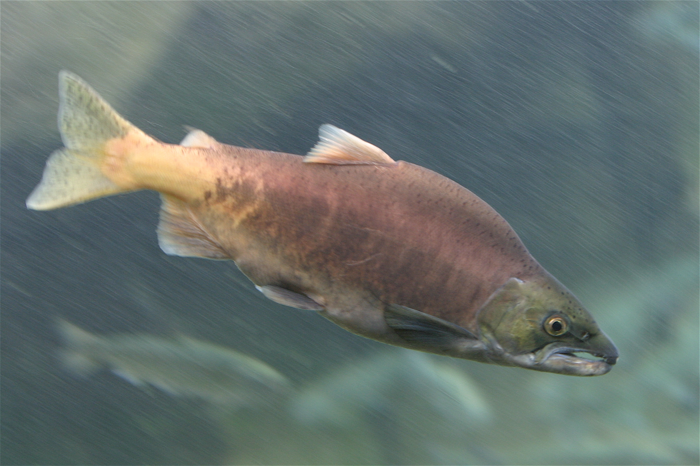 Sockeye Salmon (Oncorhynchus nerka) at the Oregon Zoo